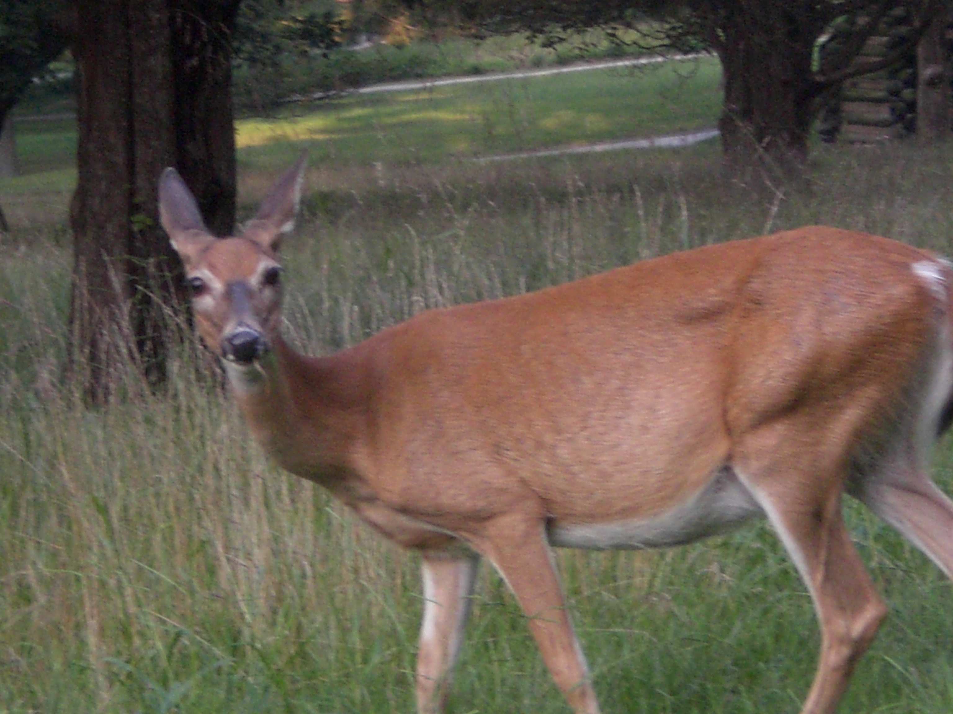 Taken by me in Valley Forge National Park, Pennsylvania, USA on August 25, 2007.